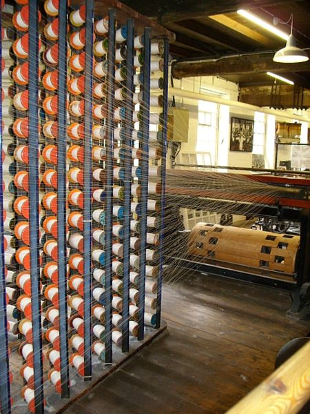 Warping Machine